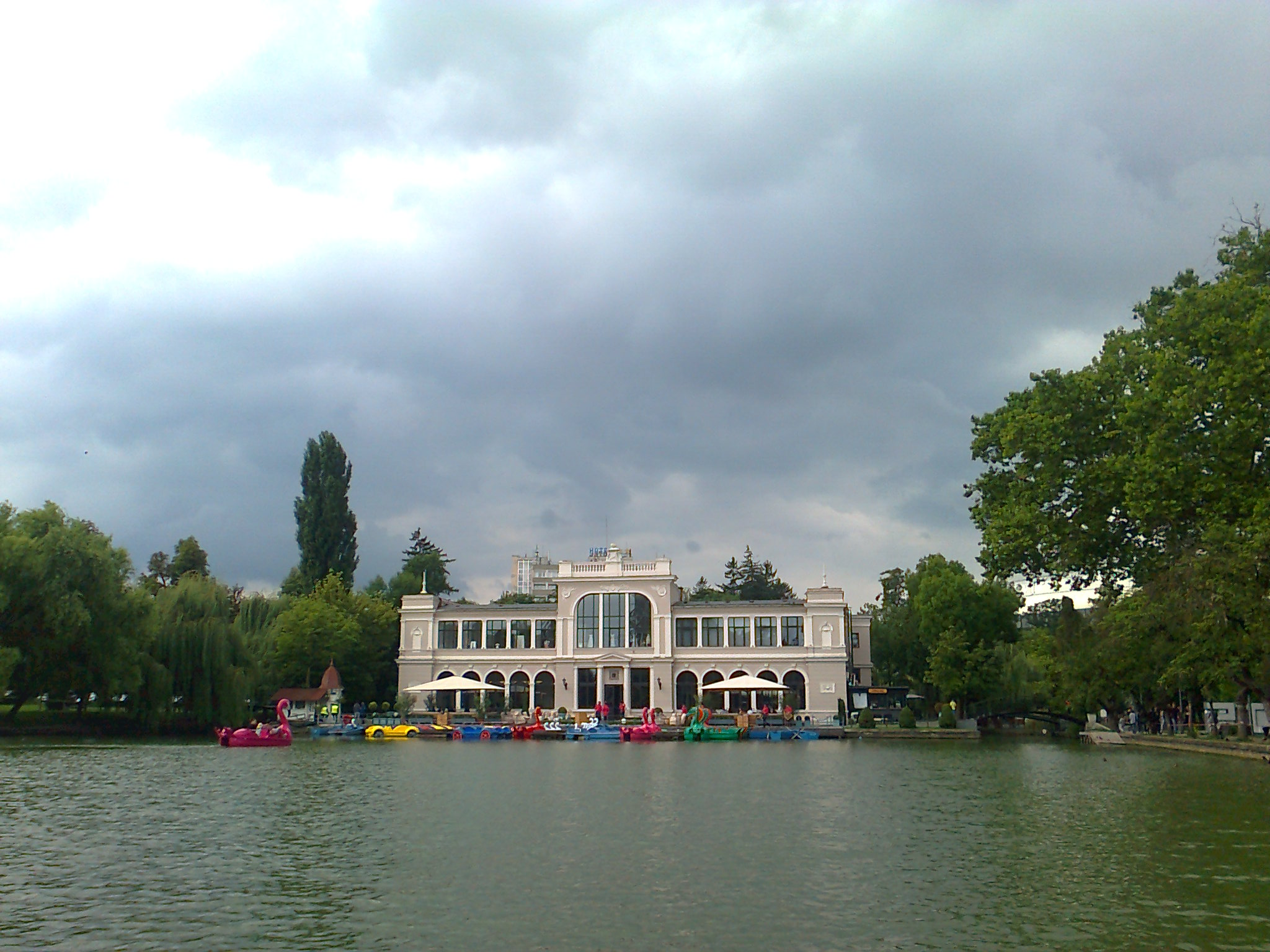 Skating pavilion and kiosk in Kolozsvár (Cluj-Napoca, Romania) built in 1896-97, planned by Lajos Pákey.